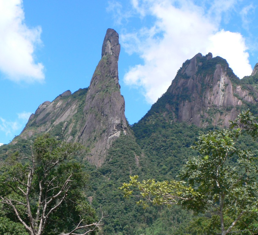 The "Finger of god" Serra dos Orgaos NP Brazil